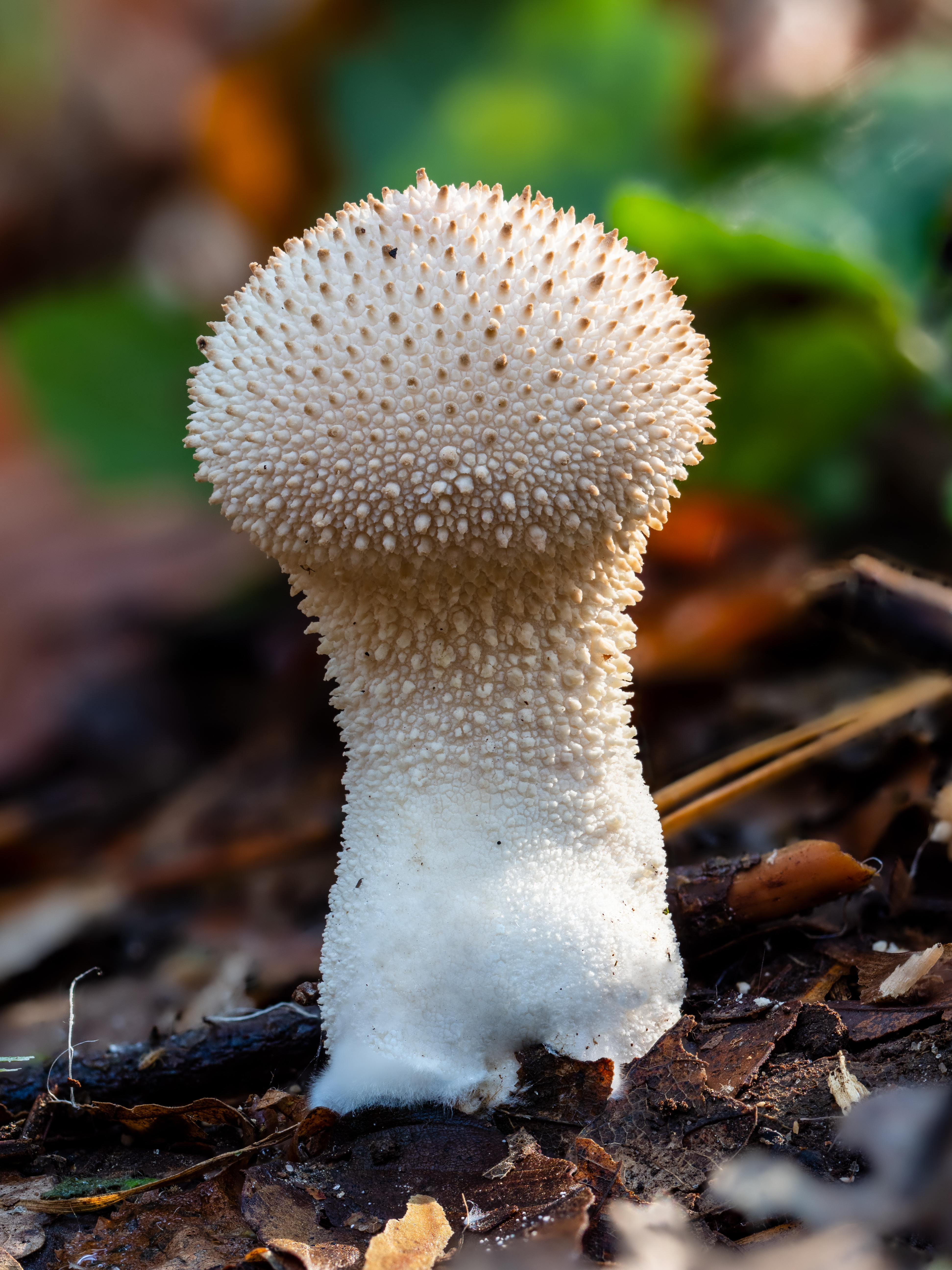 common puffball (Lycoperdon perlatum, syn. L. gemmatum).Focus stack of 16 images.